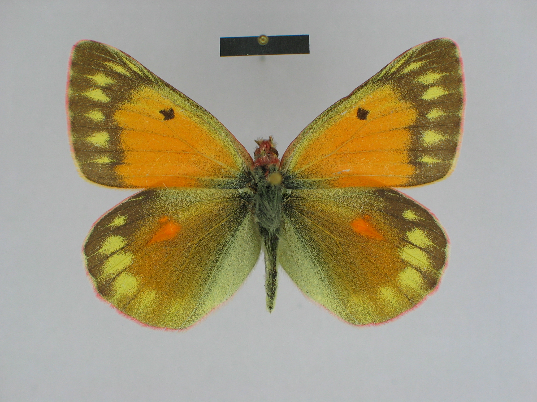 Paratype of the species Colias hyperborea paradoxa from the collection of the State Darwin Museum; ♀ dorsal side; scalebar=1 cm